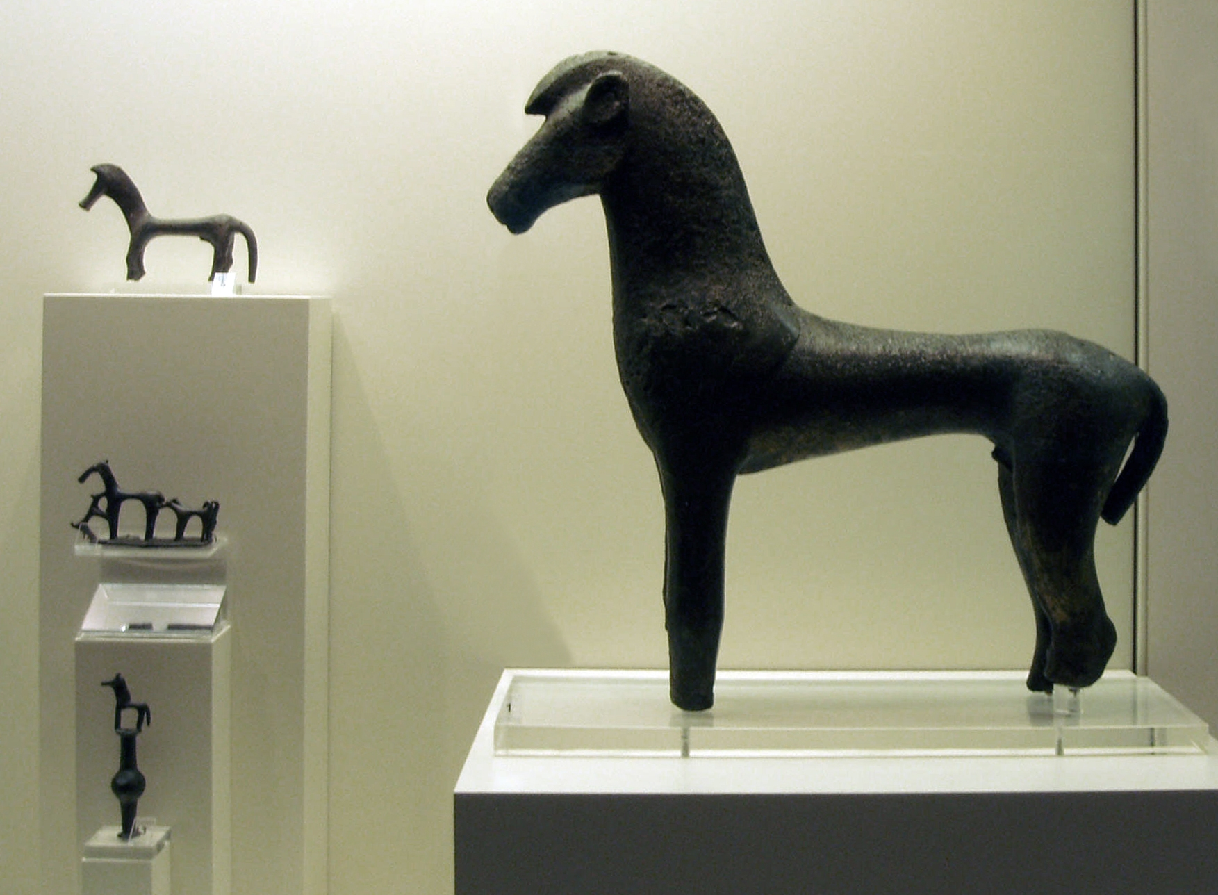 Bronze horse. Start of 7th century BCE / fr: statuette de cheval en bronze (fonte pleine) VIIe siècle avant notre ère.